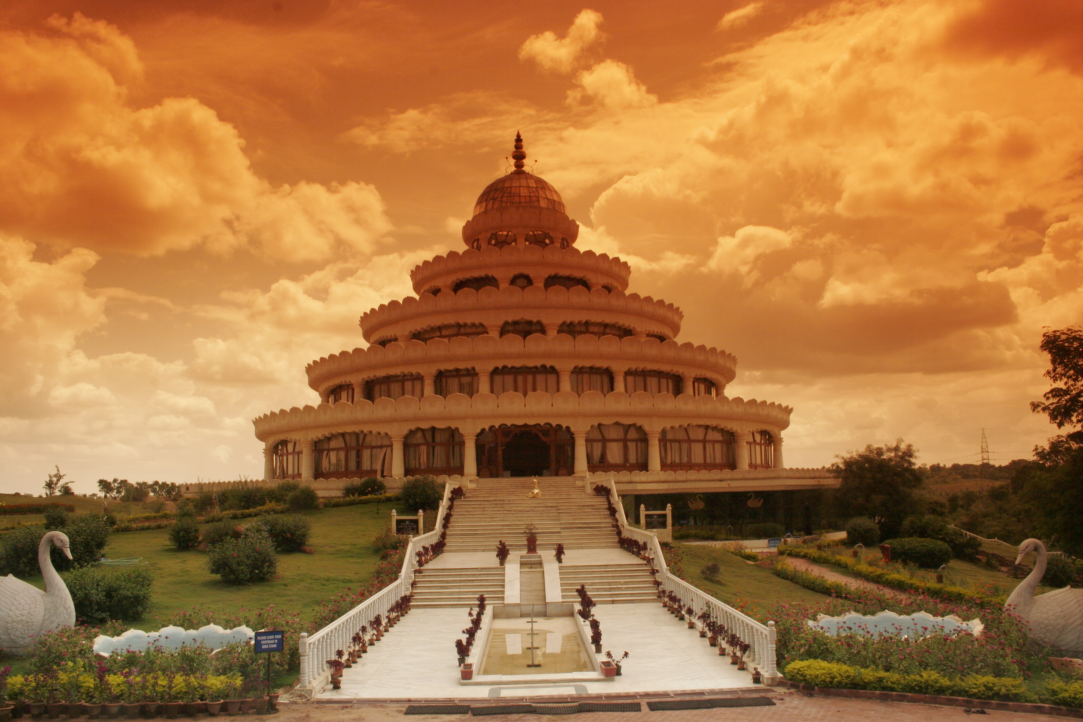 Vishalakshmi Mantap - main meditation hall at the Art Of Living International Center, Bangalore